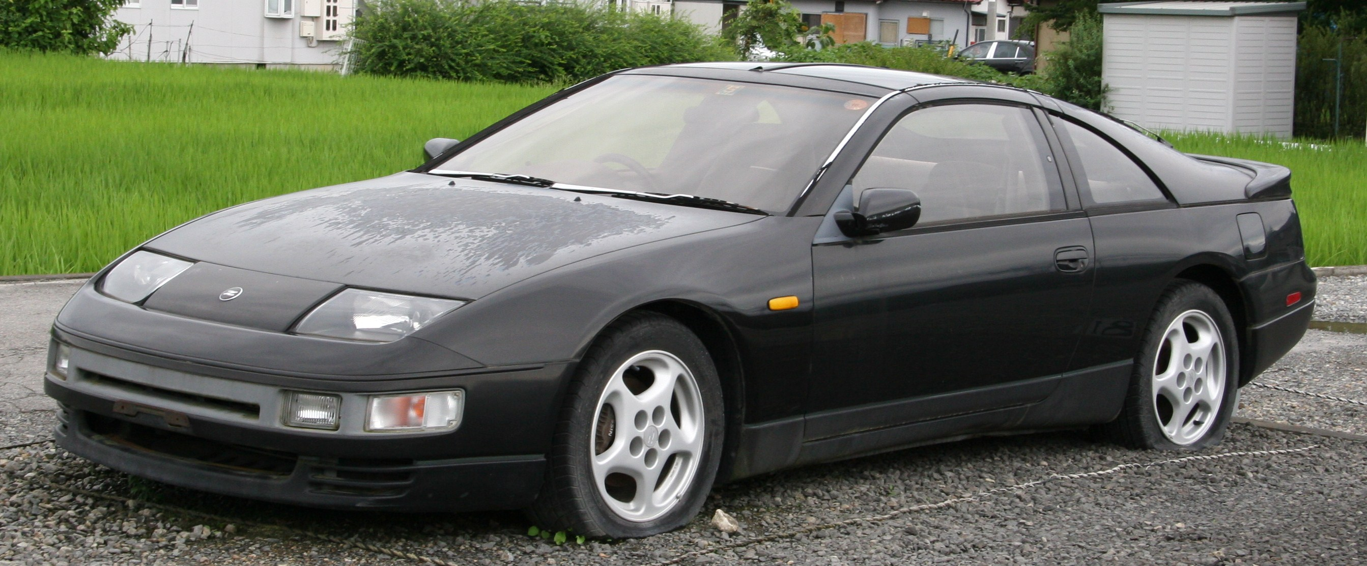 NISSAN Fairlady Z